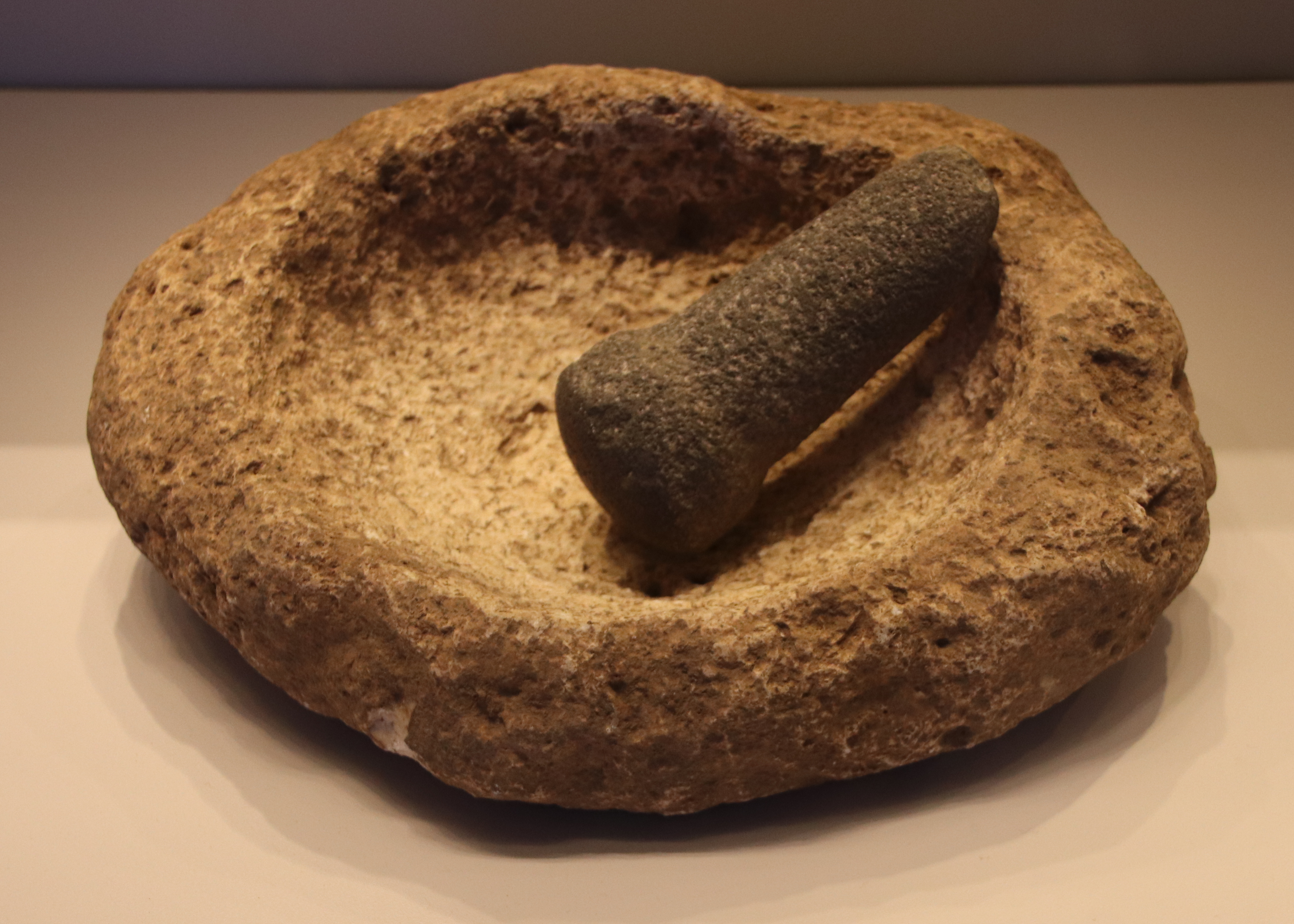 Basalt & Limestone Mortar & Pestle, Natufian Culture Israel Museum, Jerusalem, Israel. Complete indexed photo collection at .